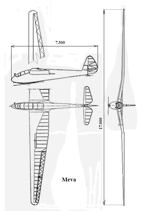 Glider Mewa